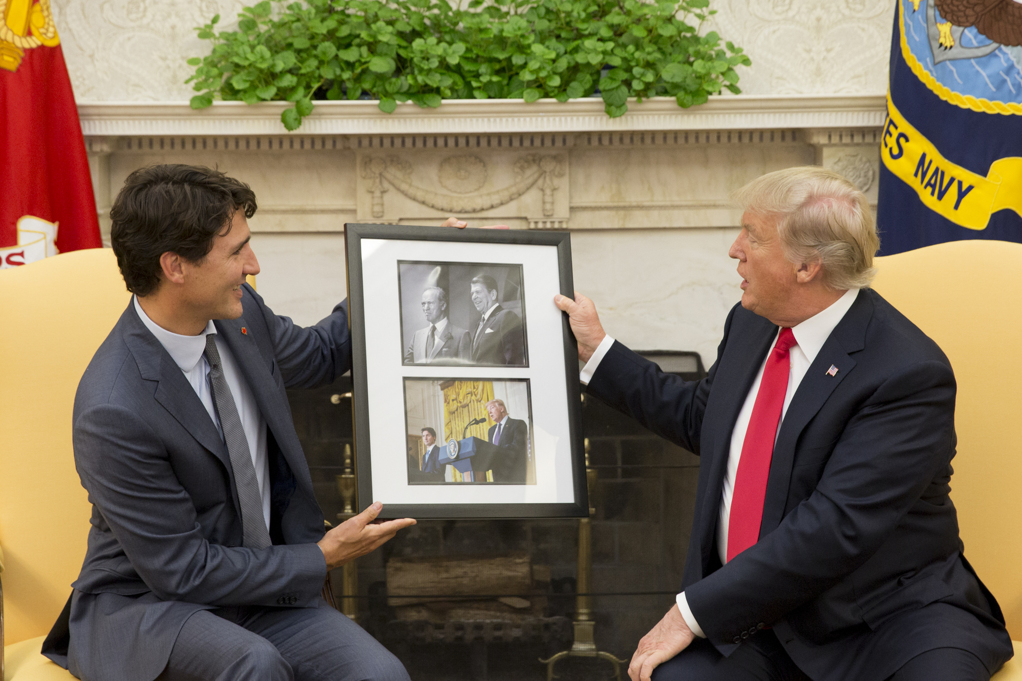 President Donald J. Trump is presented a gift in the Oval Office, Wednesday, October 11, 2017 at the White House in Washington, D.C., from Canadian Prime Minister Justin Trudeau, showing a photo of Trudeau’s father Pierre Trudeau meeting President Ronald Reagan in 1983, and a photo of President Trump and Prime Minister Trudeau meeting earlier that year. (Official White House Photo by Joyce N. Boghosian)